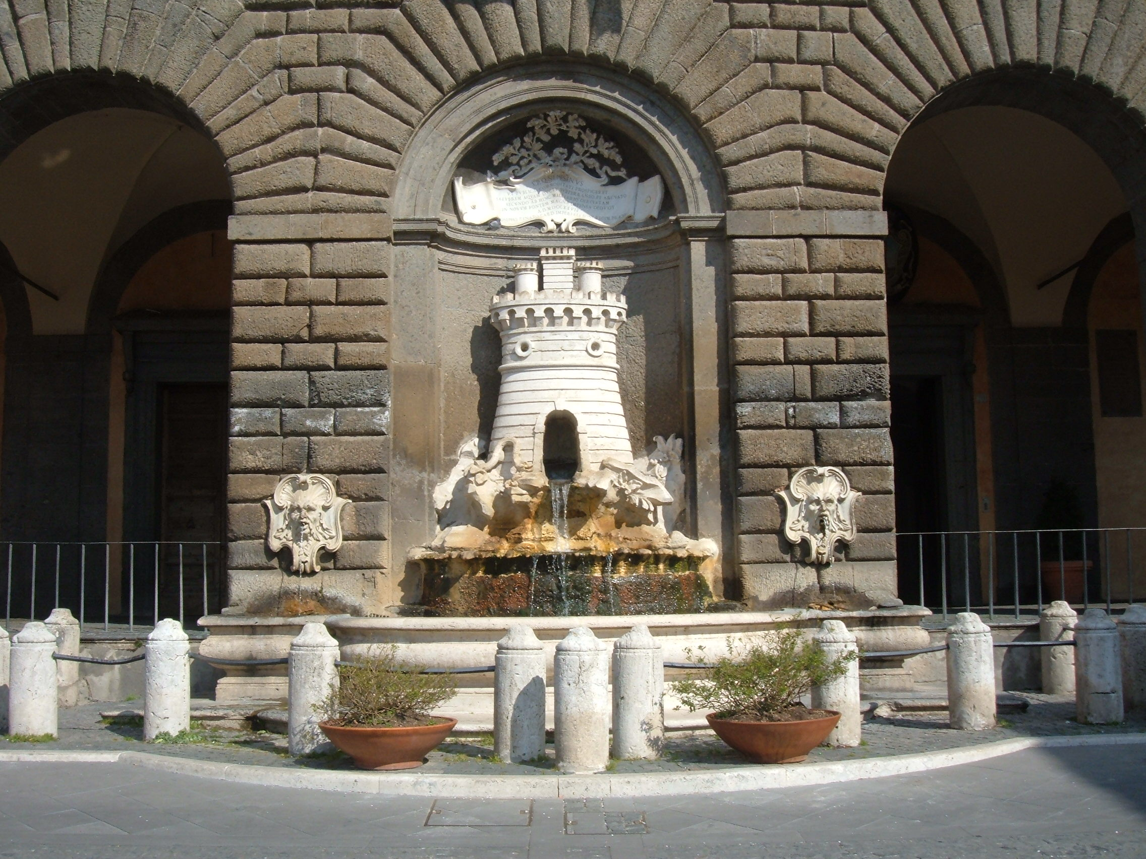 Fountain at City Hall (Nepi)